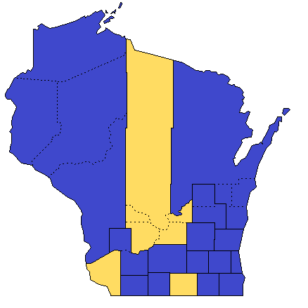 Map of the partisan makeup of the Wisconsin Senate in 1848 Democratic: 16 seats Whig: 3 seats